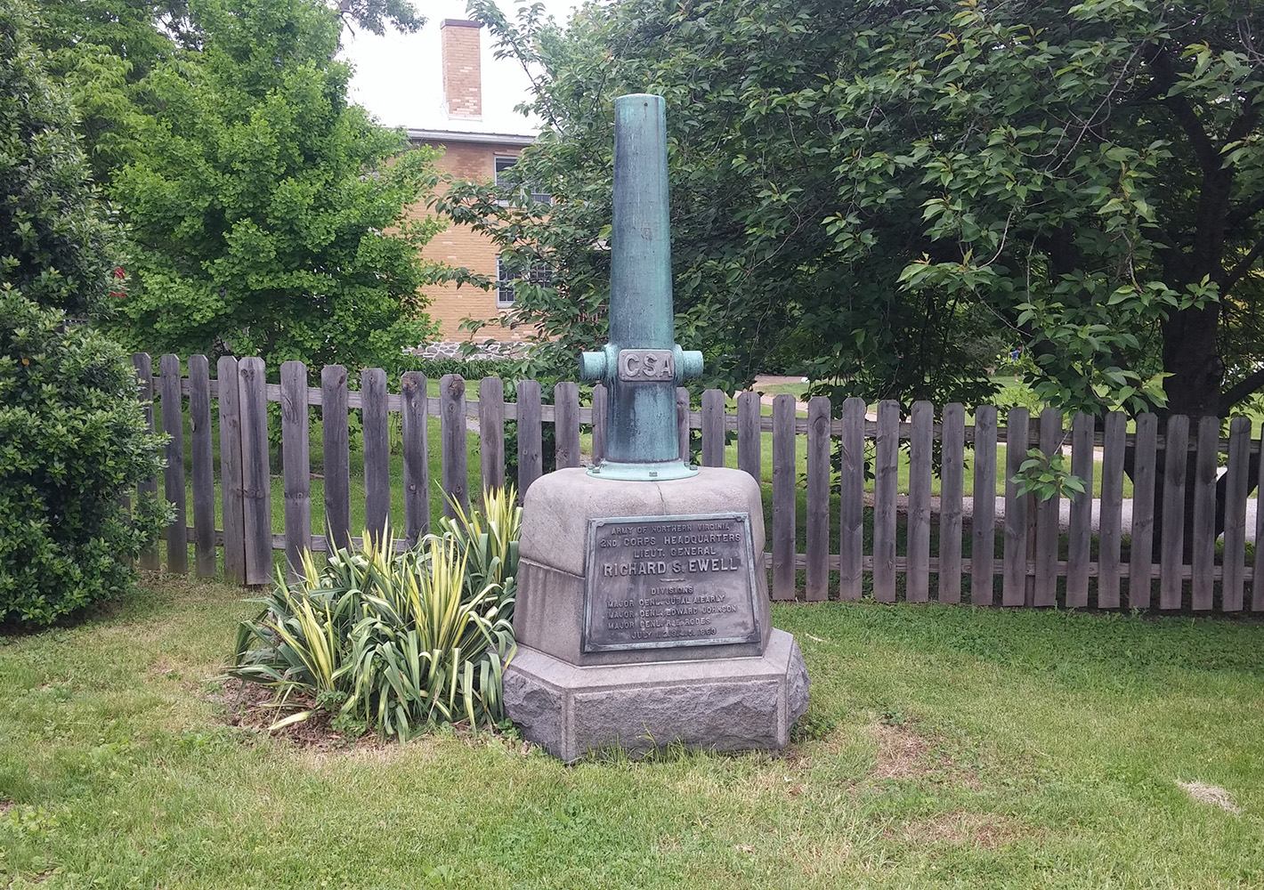 General Ewell headquarters site on Hanover Road